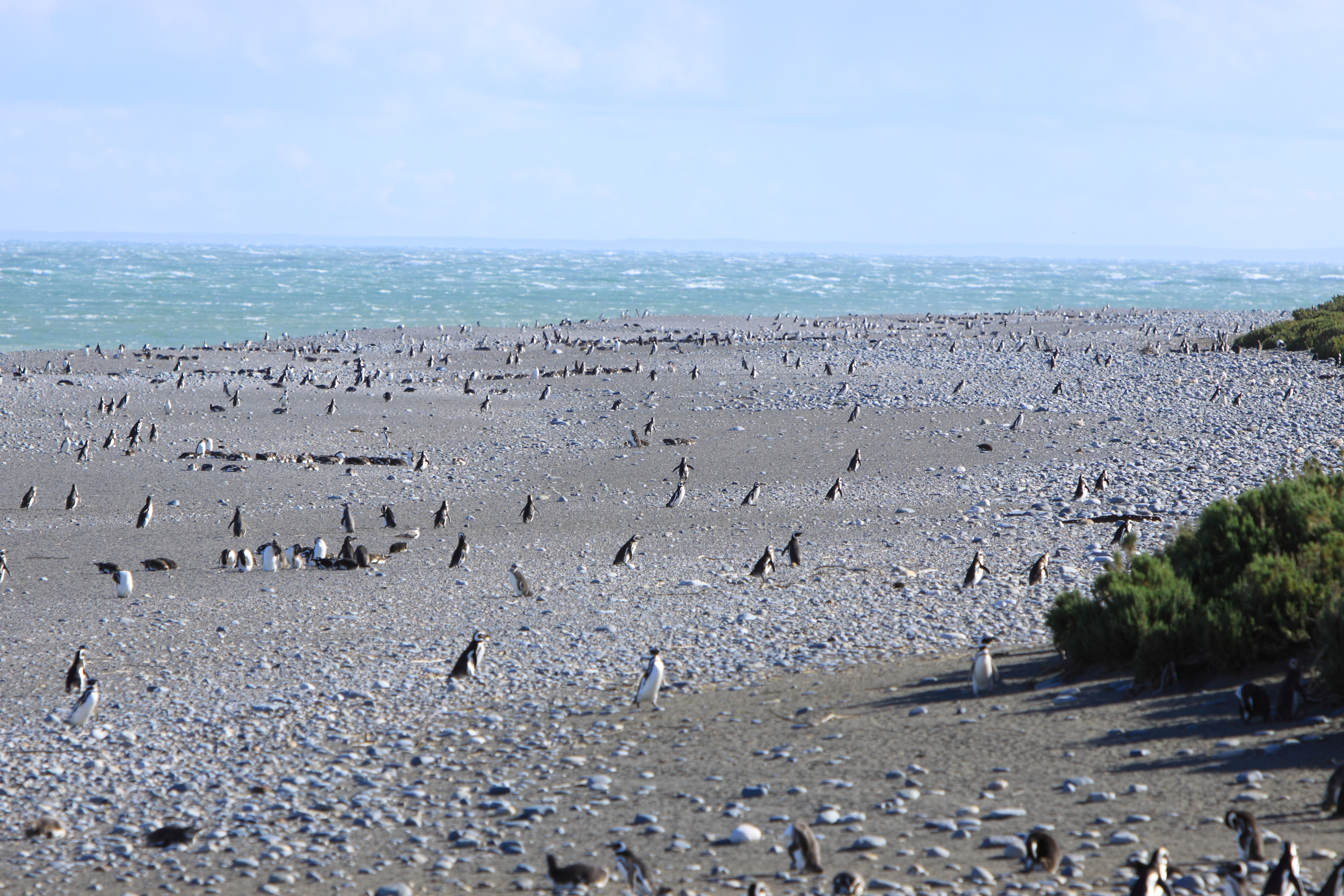 Please, have this description accessible to all by translating it in different languages.